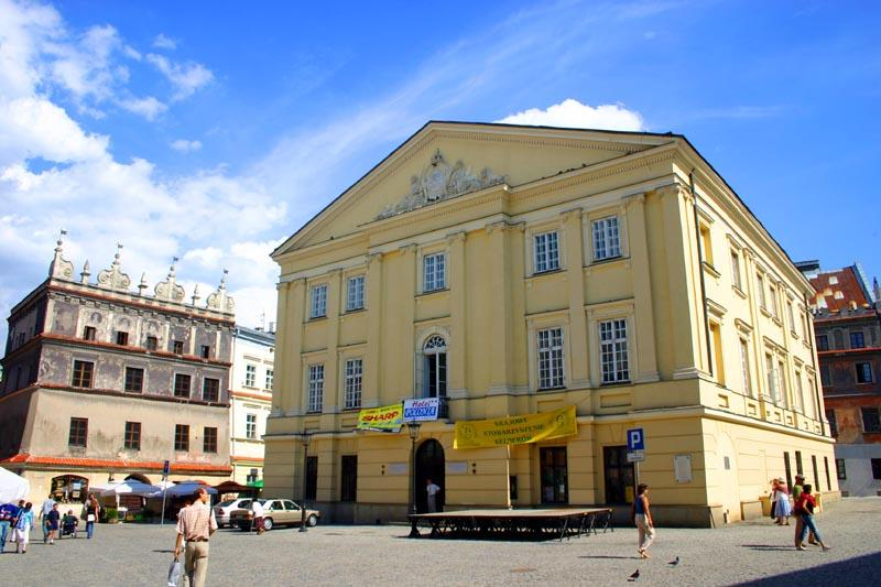 Lublin Crown Tribunal